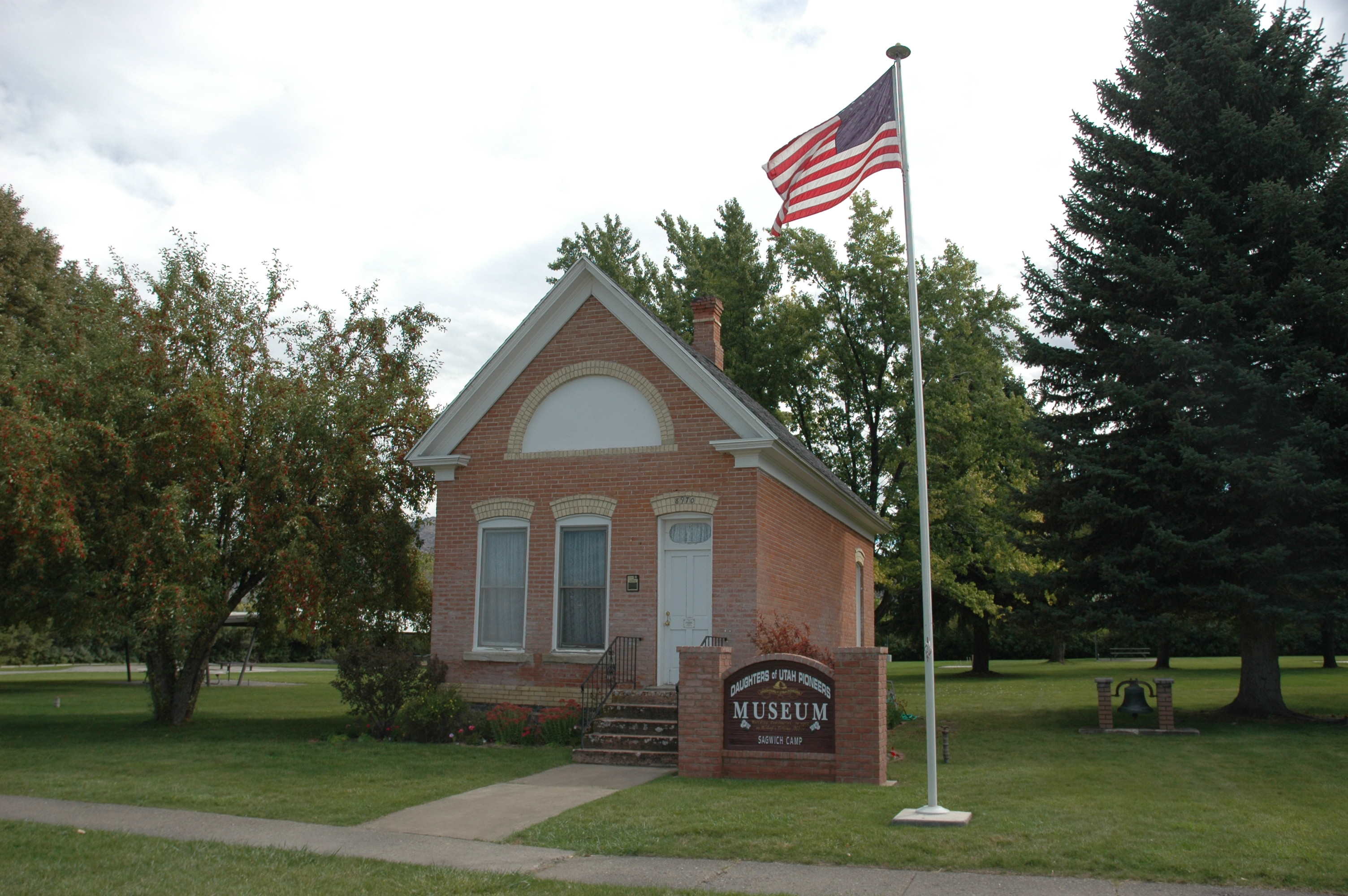 The Paradise Tithing Office, a historic building in Paradise, Utah, United States.